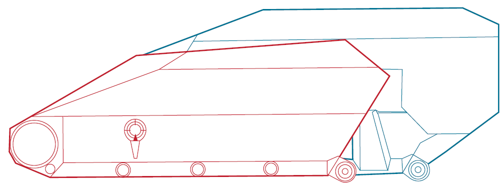 The Silhouette of the Wiesel 1(red) versus Wiesel 2(blue)